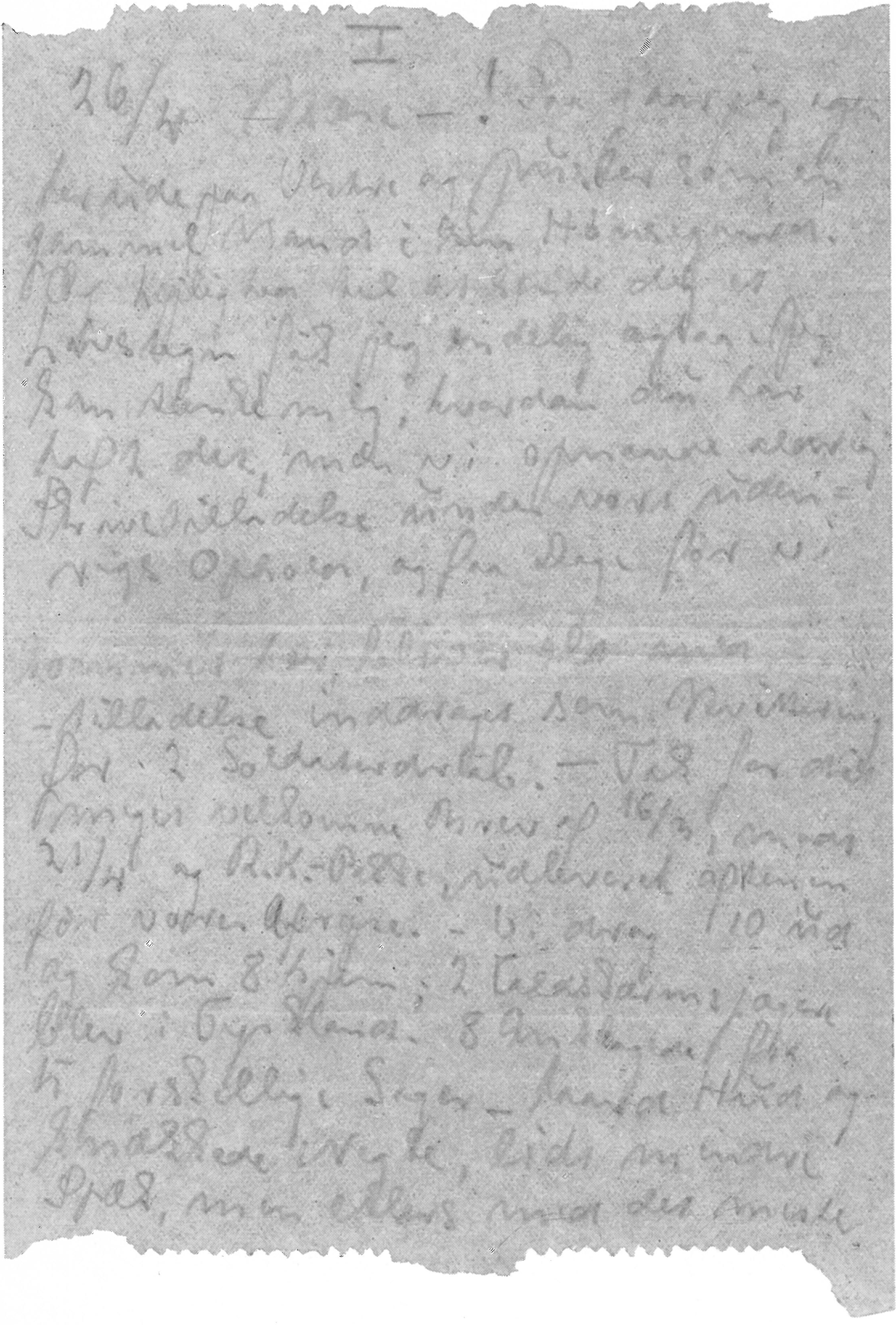 Letter from the author, from his book.